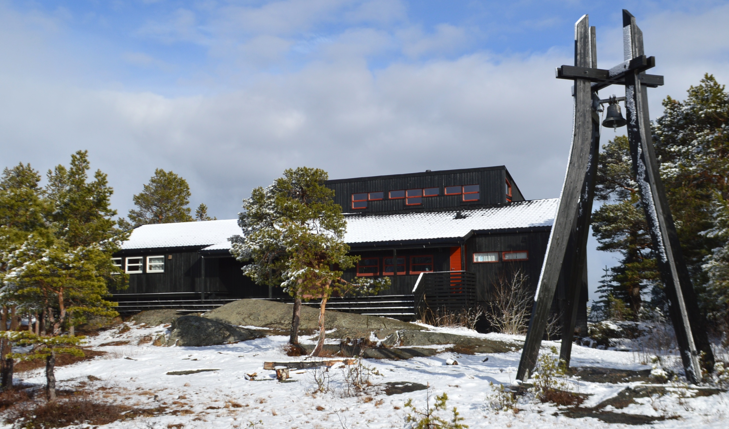 Front part of the Vassfjell Chapel